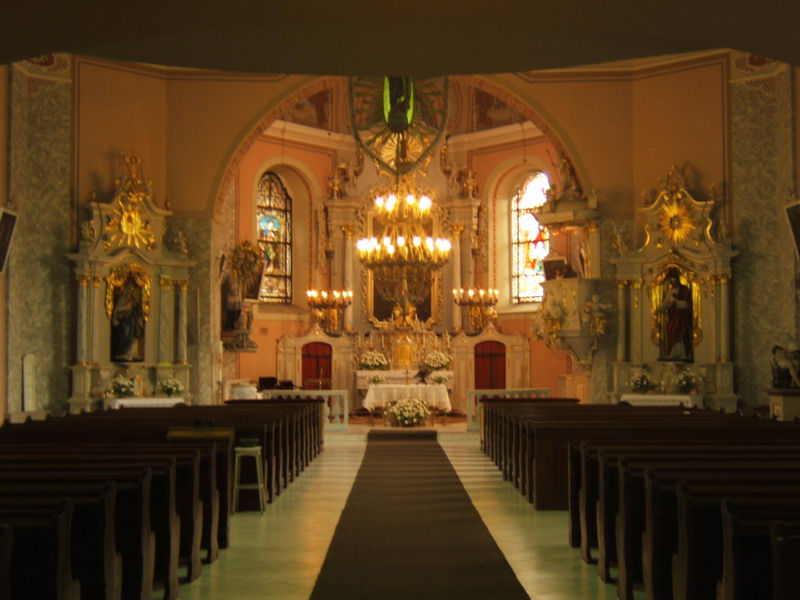 Inside the church Všech Svatých in Vejprty (Weipert), Ore Mountains, CZ